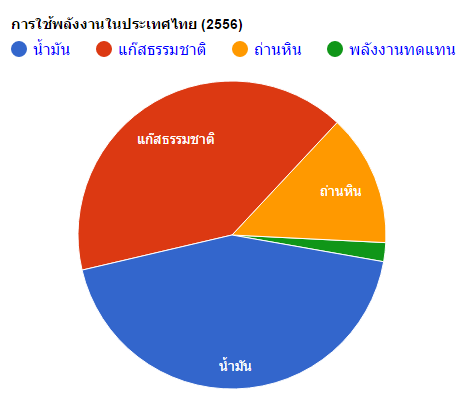 Thailand energy consumption 2013